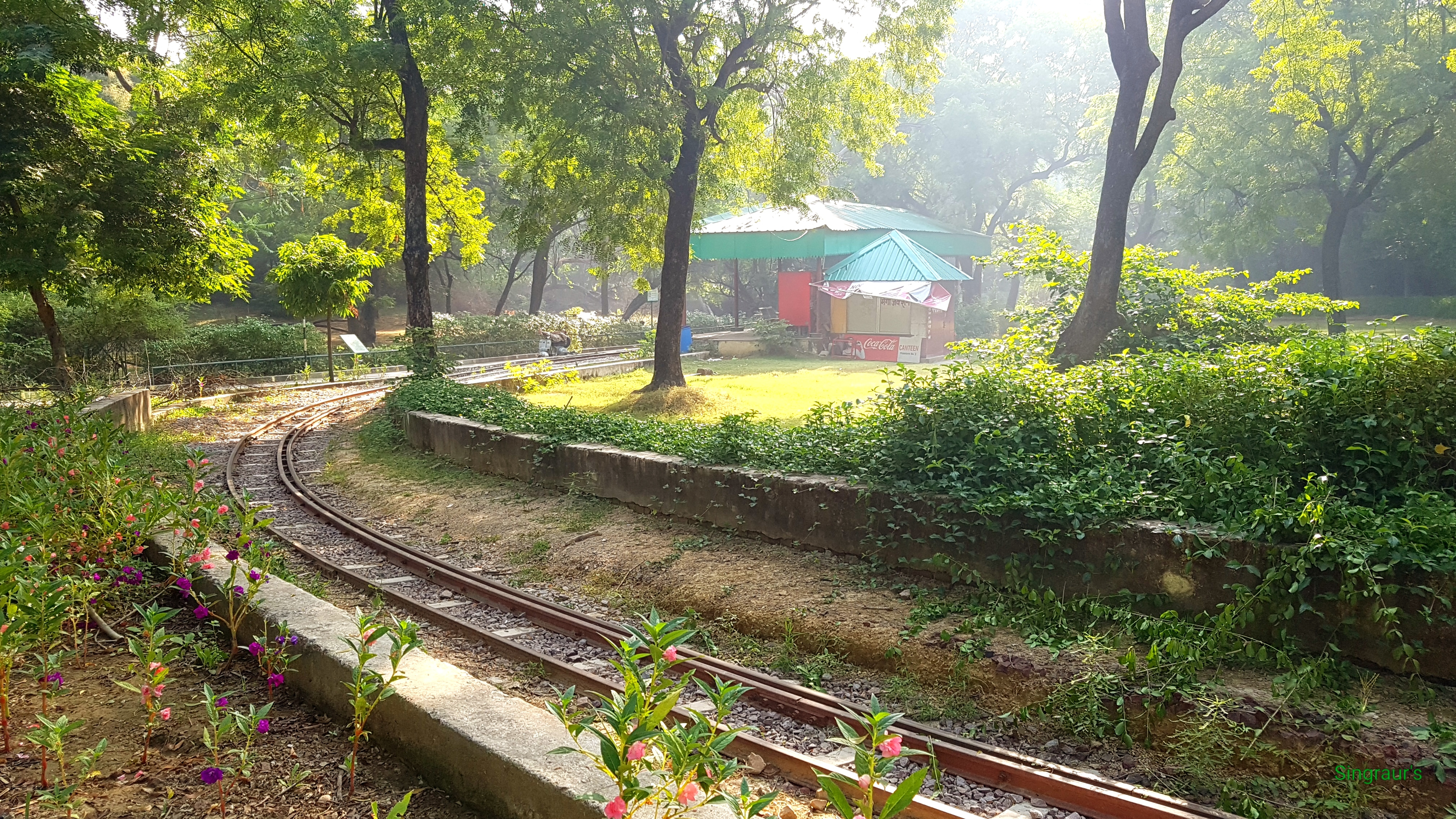 Kanpur zoo toy train station